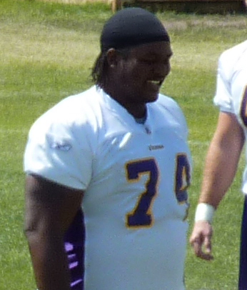 Bryant McKinnie, while a member of the Minnesota Vikings, at the Vikings' 2009 Training Camp, Mankato, Minnesota, USA.